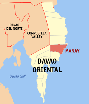 Map of the Davao Oriental showing the location of Manay